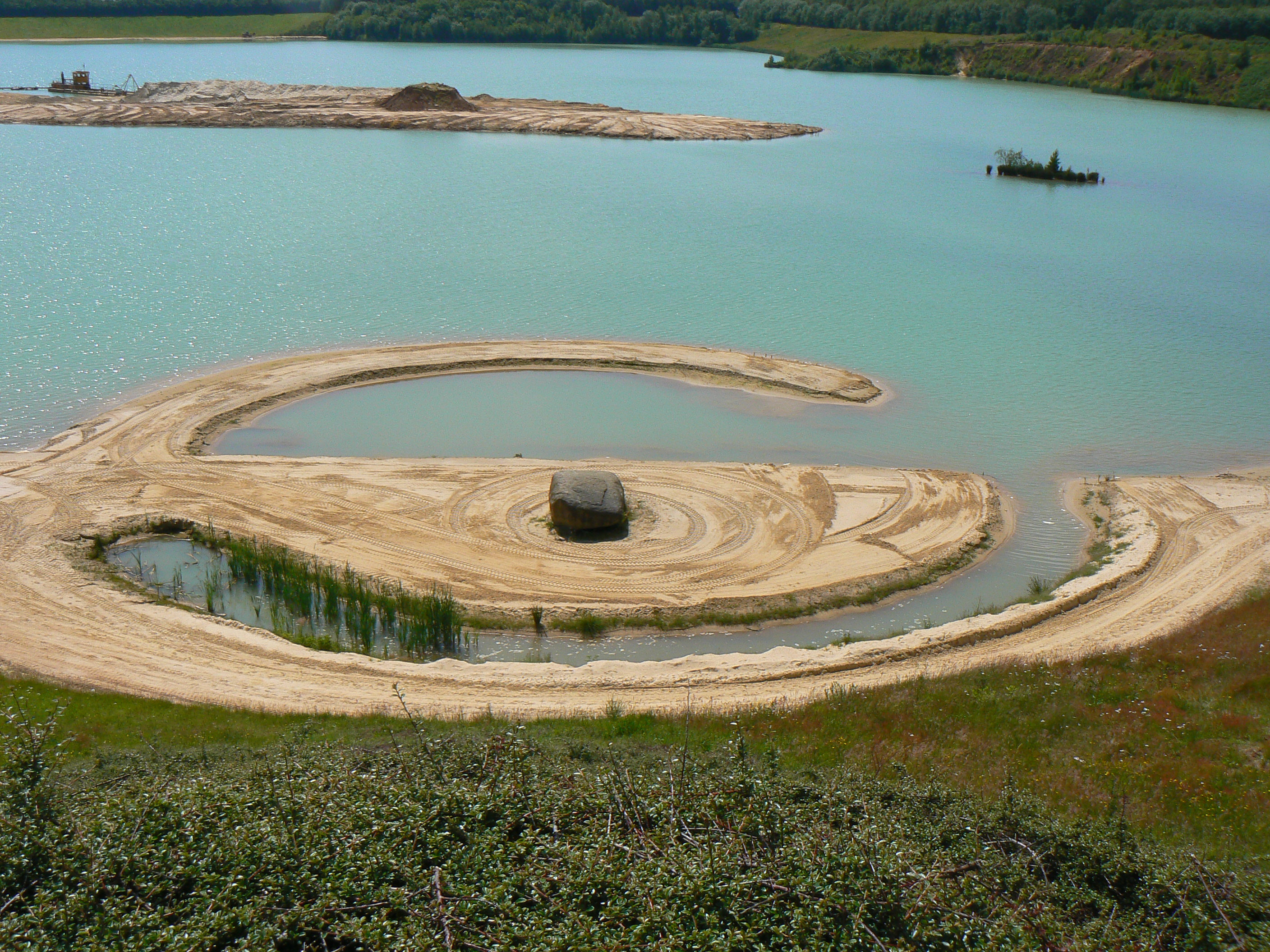 Broken Circle and Spiral Hill (1971) by Robert Smithson in Emmen/The Netherlands